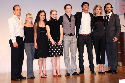 Team USA at the 2009 ISU World Team Trophy in Figure Skating. From left to right: Jeremy Barrett, Caydee Denney, Caroline Zhang, Rachael Flatt, Jeremy Abbott, Evan Lysacek, Tanith Belbin, Benjamin Agosto